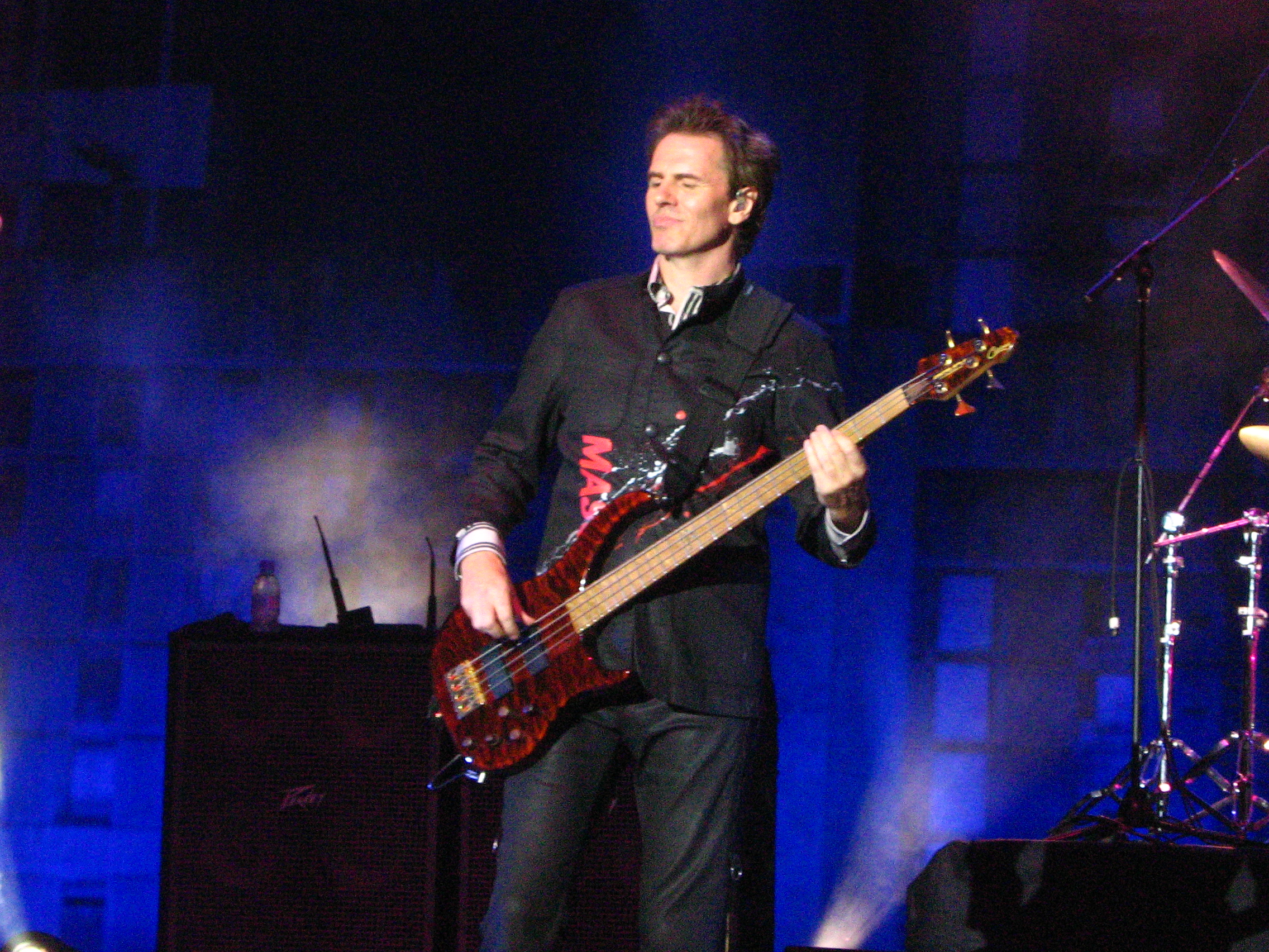 Live in concert with Duran Duran. November 12, 2008.